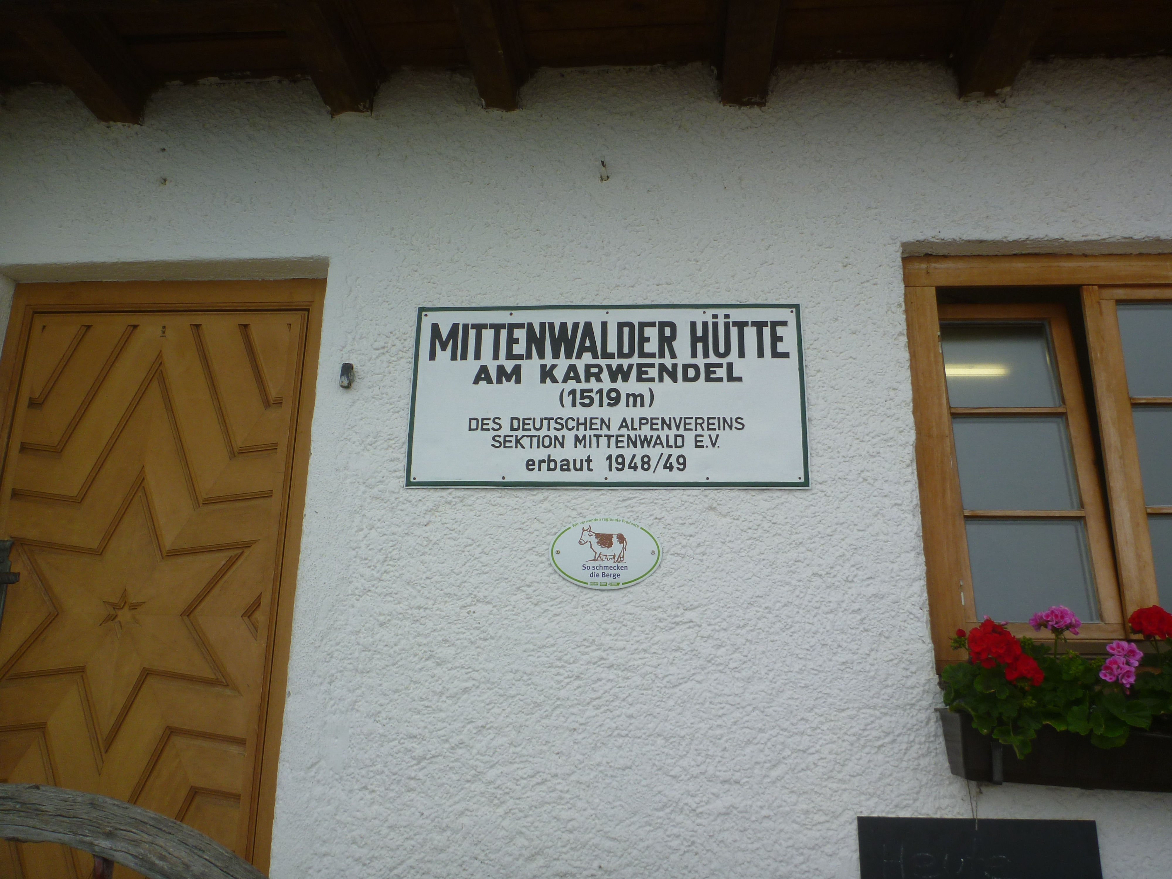 Sign at Mittenwalder Hütte